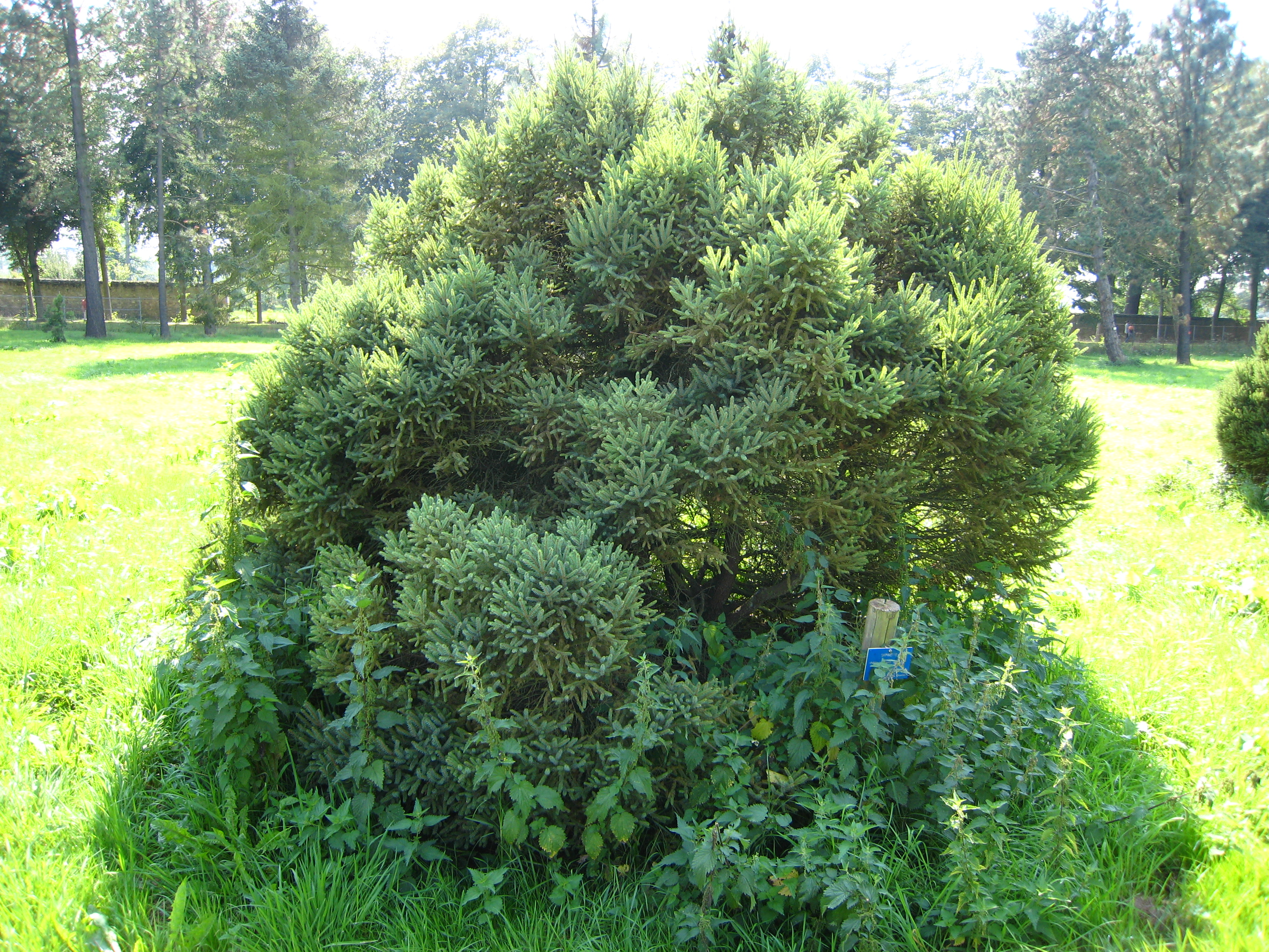 Picea mariana in the Arboretum de Chèvreloup in Rocquencourt.